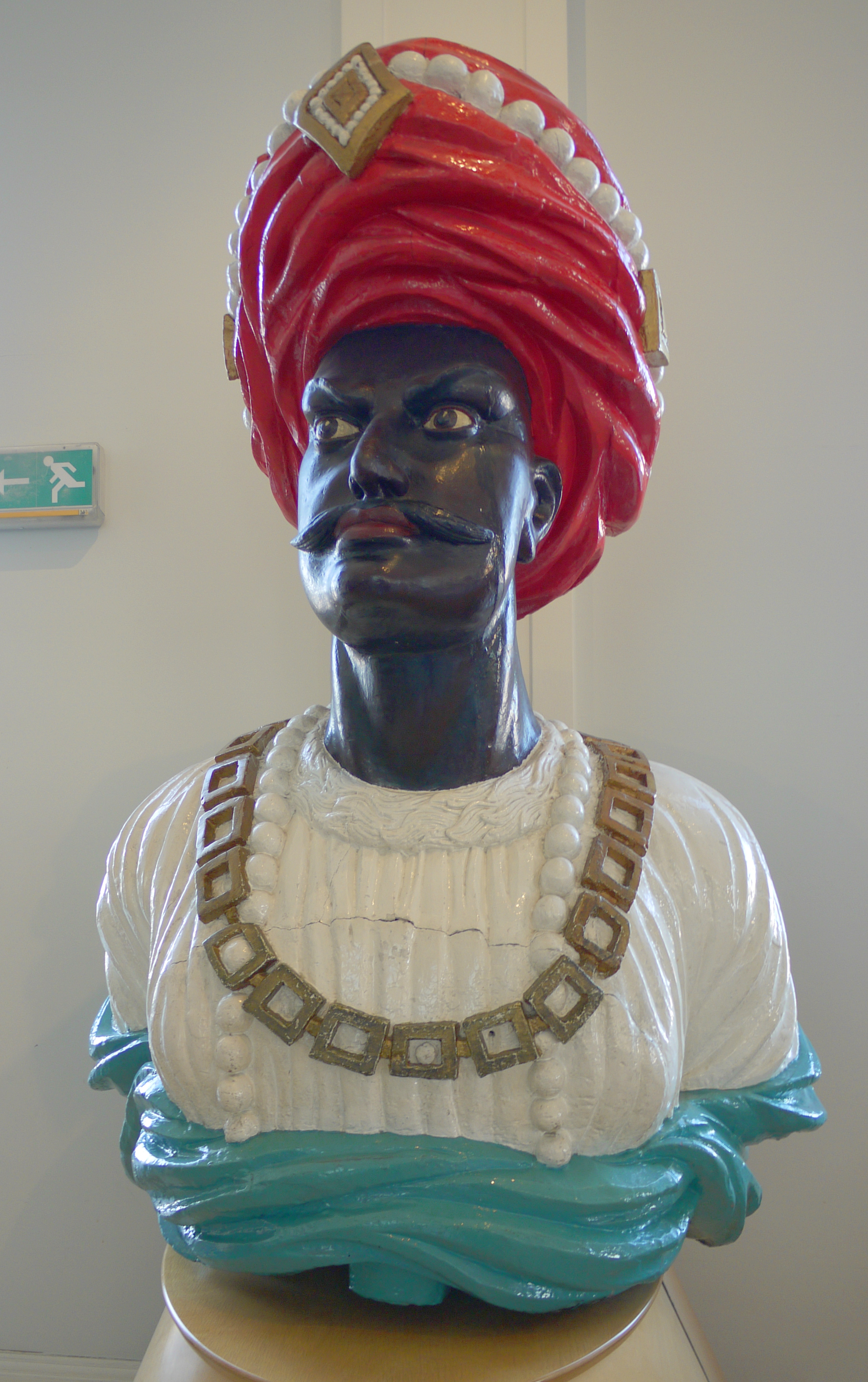 Photo of the figurehead of HMS Carnatic (1823)